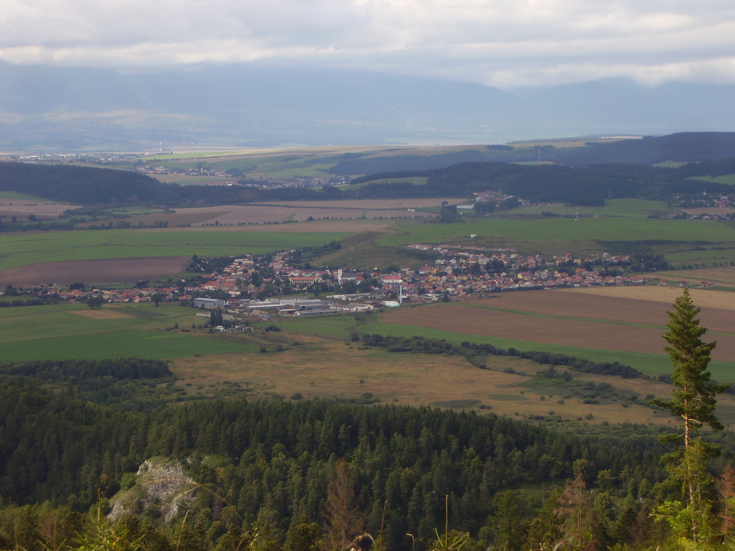 Look at Hrabušice, SNV district